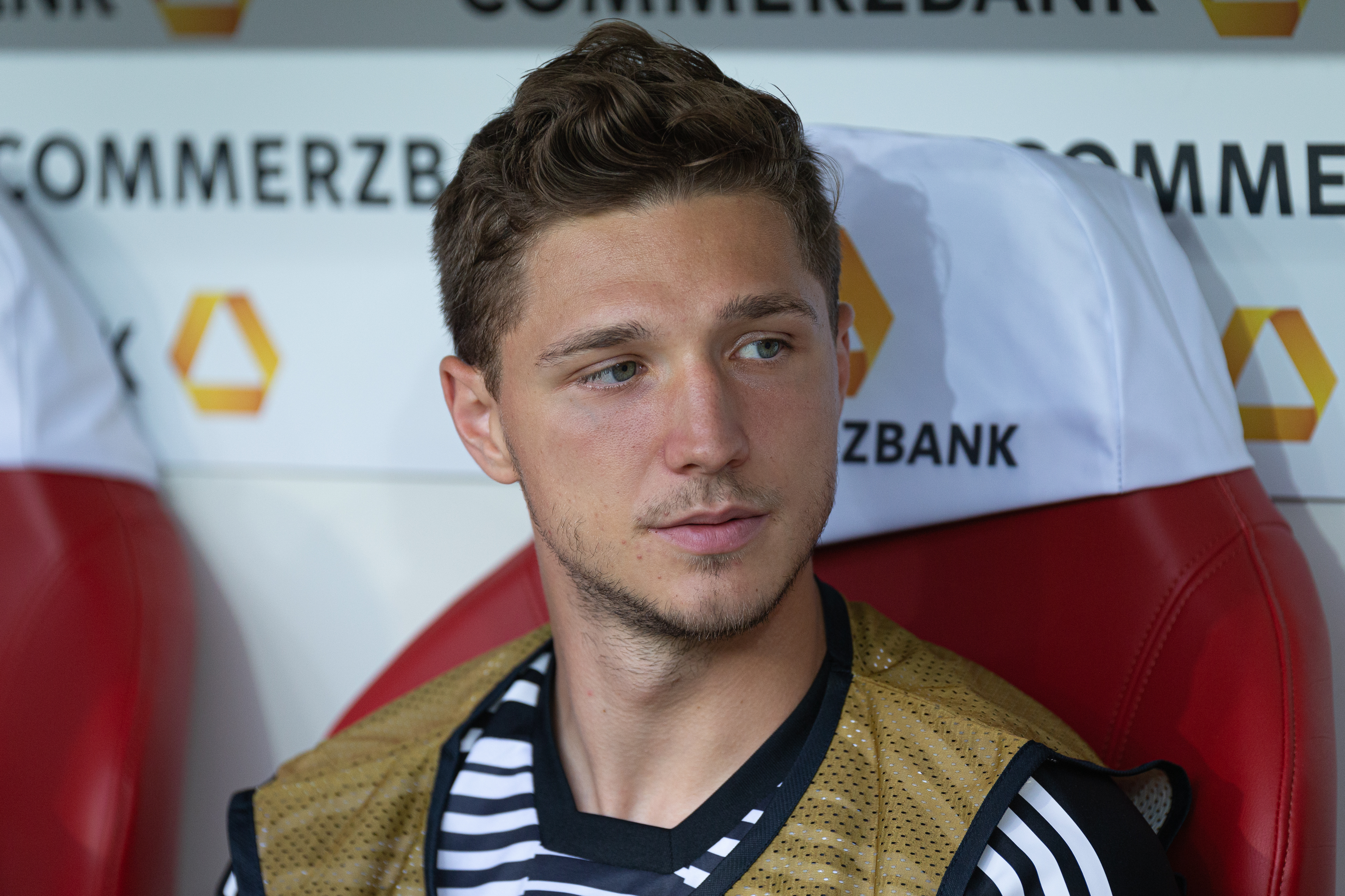 UEFA Euro 2020 qualifier Germany-Estonia